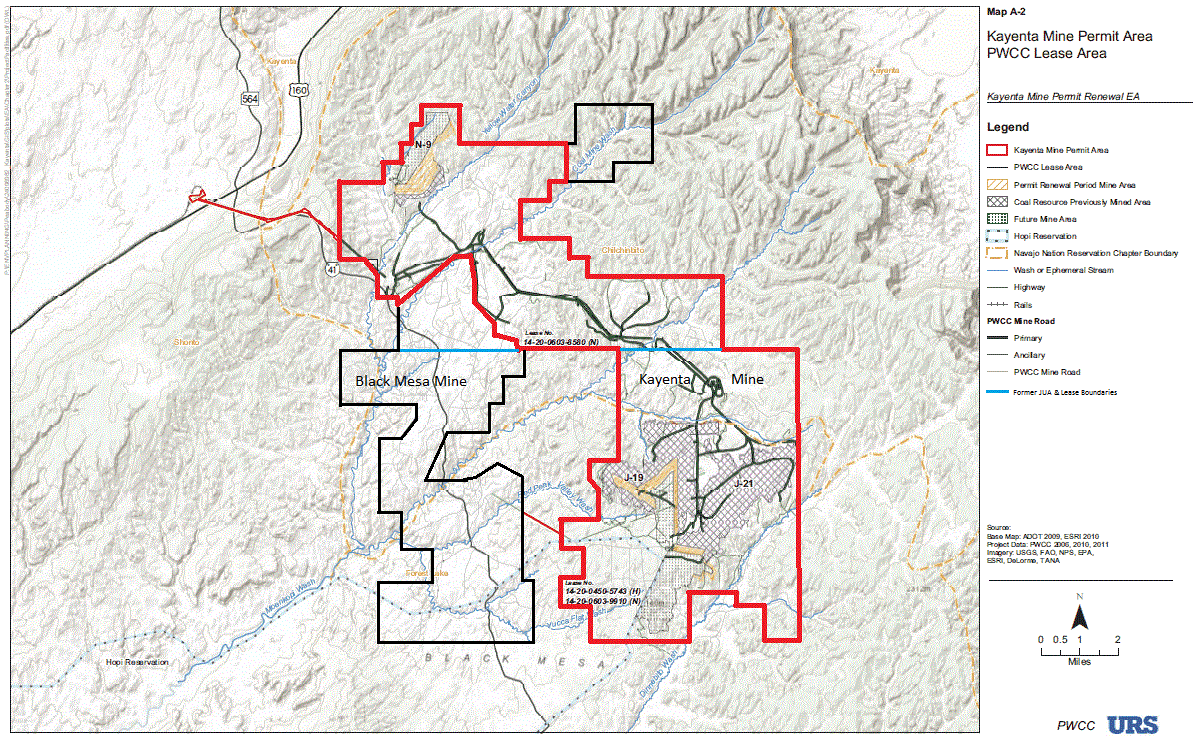 Map of Black Mesa (partial) — located in Navajo County, northeastern Arizona. With the Kayenta Coal Mine permit area, the former Black Mesa mine boundary, and other areas leased by Peabody Western Coal Company on the mesa.